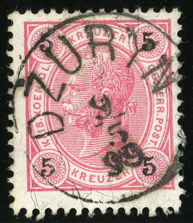 Austria KK 5 kreuzer issue 1890 stamp, cancelled DŻURYN (Galicia, Ukraine) in 1899. Bezirk Czortkow